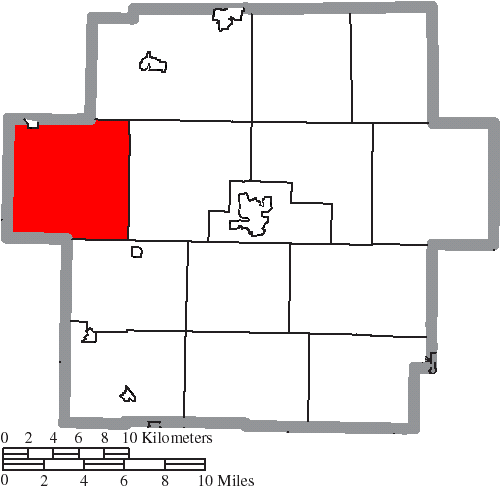 Map of the municipal and township boundaries of Carroll County, Ohio, United States, as of the 2000 census, with the location of Rose Township highlighted. Township borders are shown only in unincorporated areas in order to differentiate incorporated and unincorporated areas more clearly.